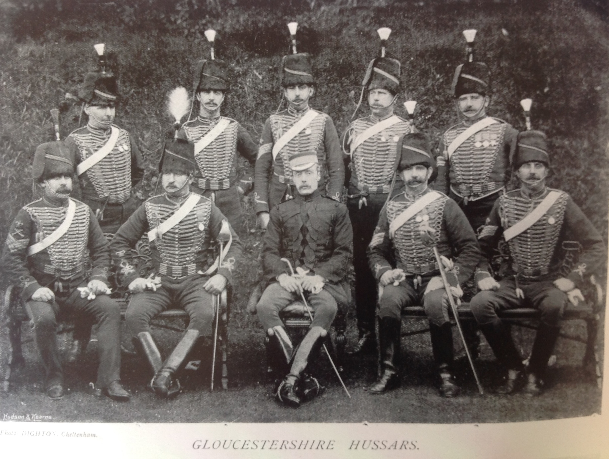 Group of sergeants of the Gloucestershire Hussars. Pictured in the Navy and Army Illustrated published on 9 April 1896